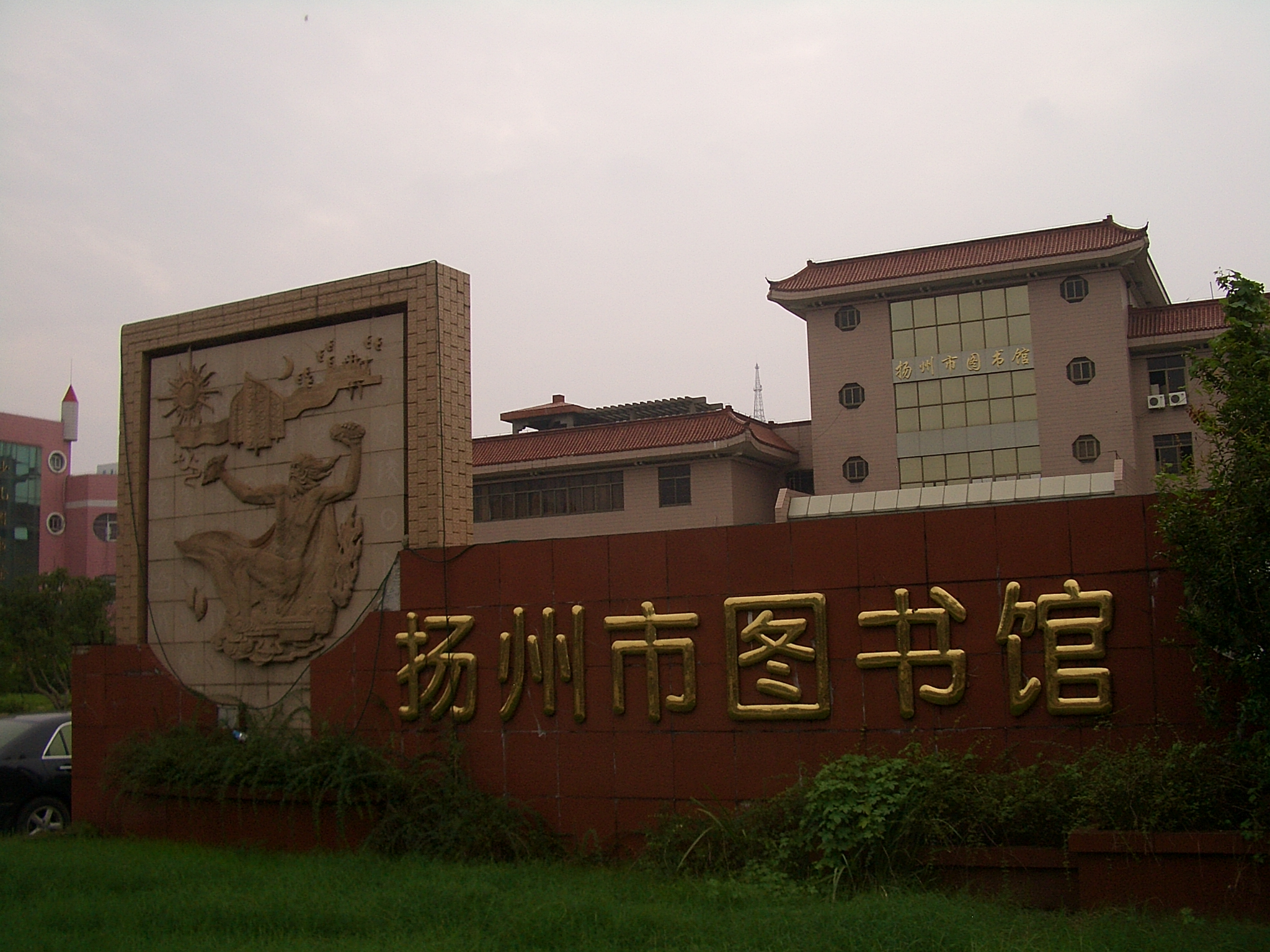 Yangzhou Public Library